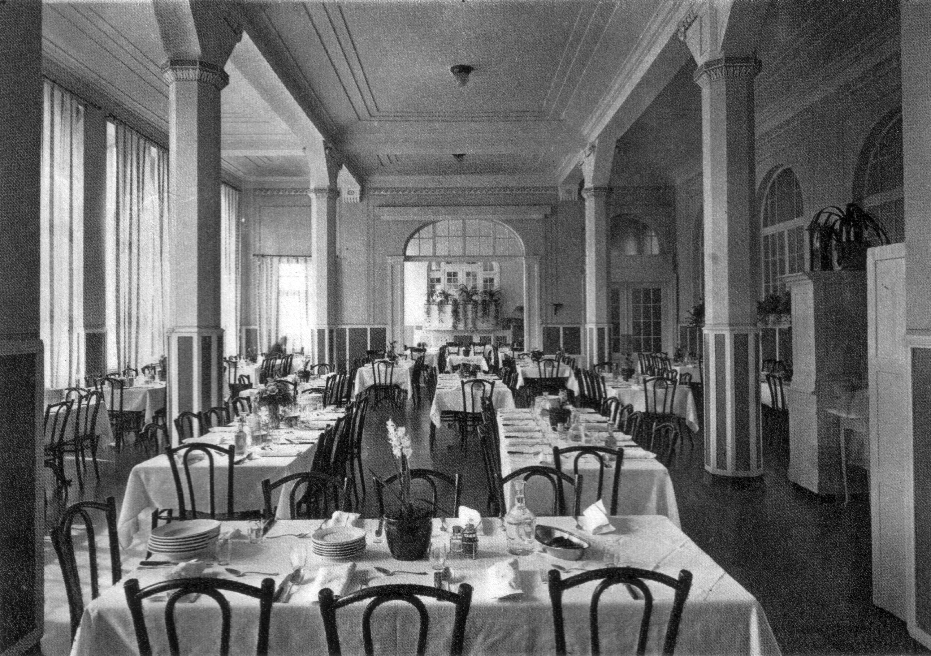 Historic picture of the sanatorium at Agra / Ticino / Switzerland, taken about 1930.Source: House information booklet, unknown photographer.